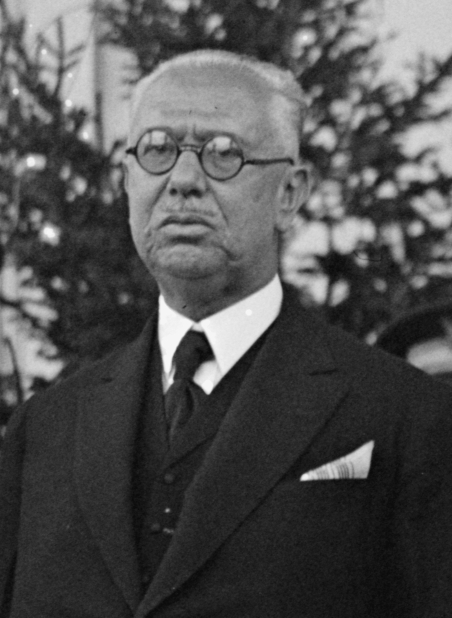 Pascual Ortiz Rubio, president of Mexico (1930-1932).